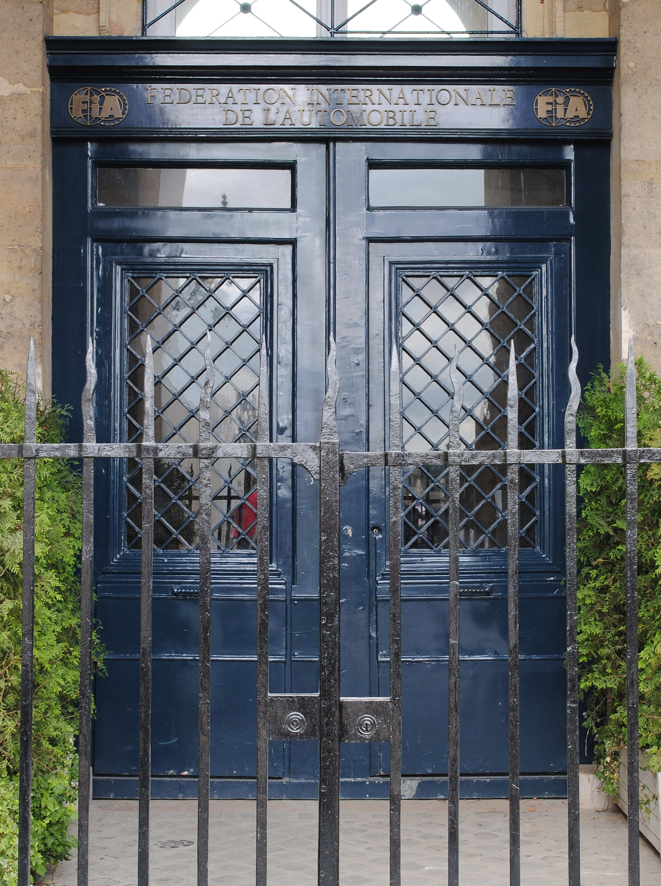 Headquarters of the FIA (Fédération Internationale de l'Automobile) (8, Place de la Concorde, Paris)